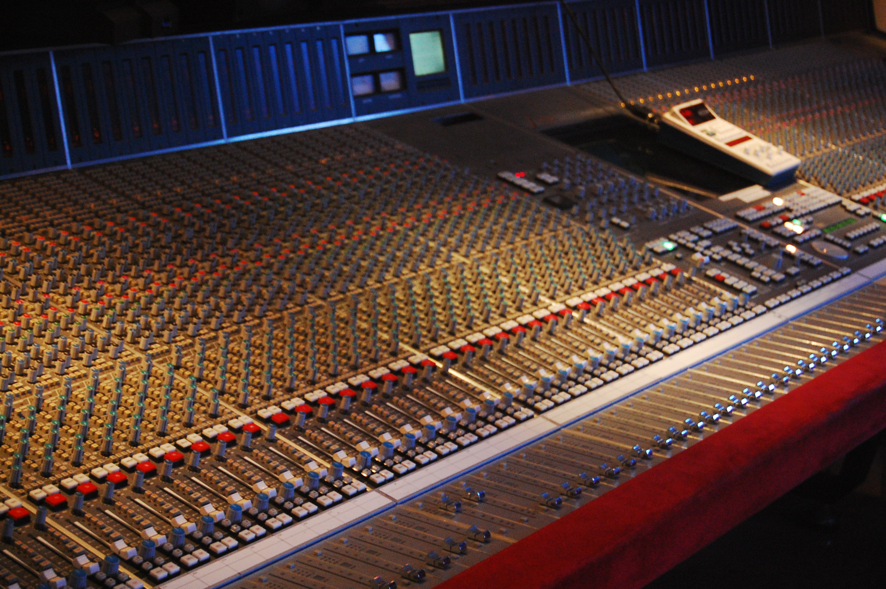 Solid State Logic SL 9000J (72ch) STUDIO A, The Cutting Room Recording Studios, NYC See, I can hang out with fancy mixing boards too!